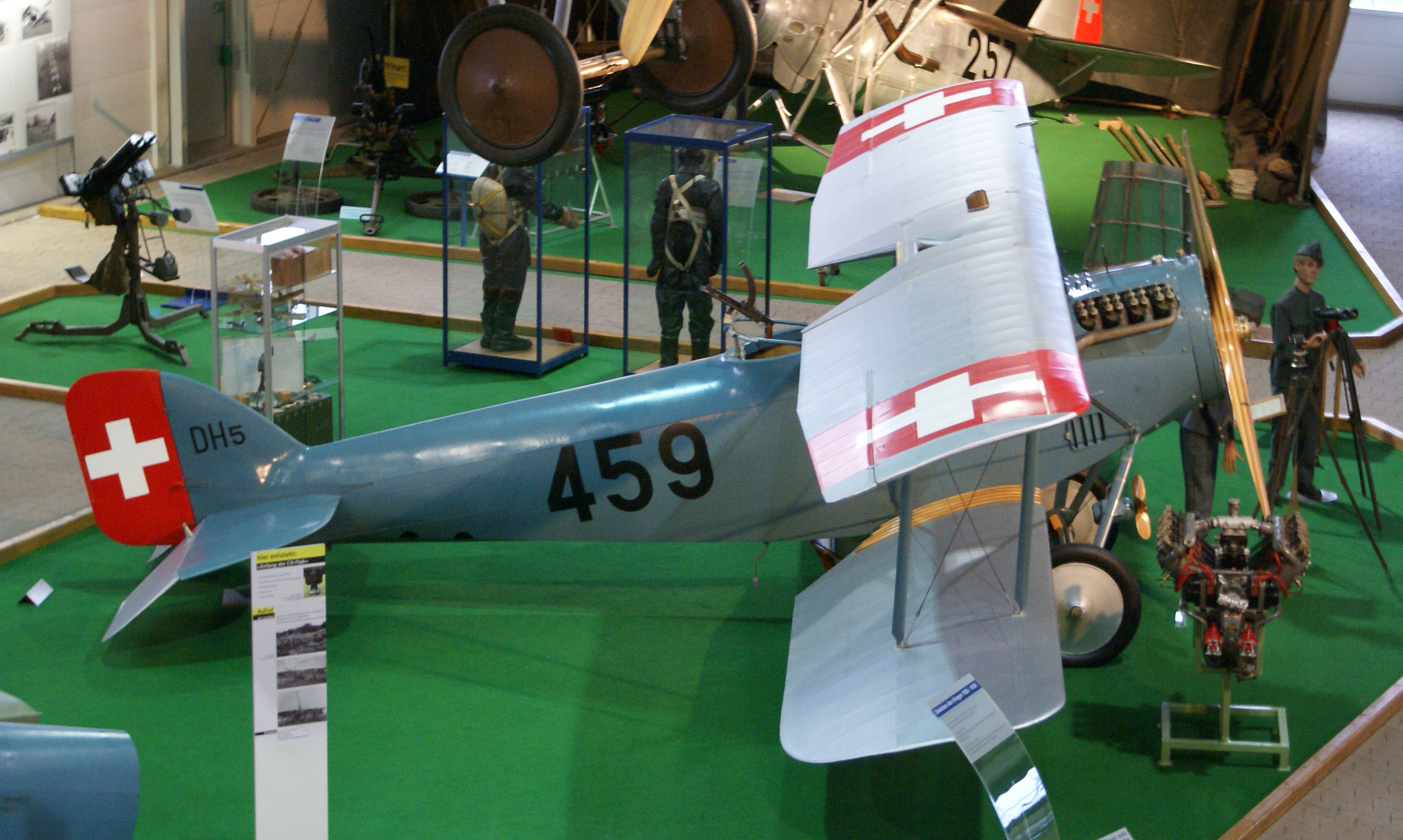 Häfeli DH-5 reconnaissance aircraft of the Swiss Army Air Corps, second series.